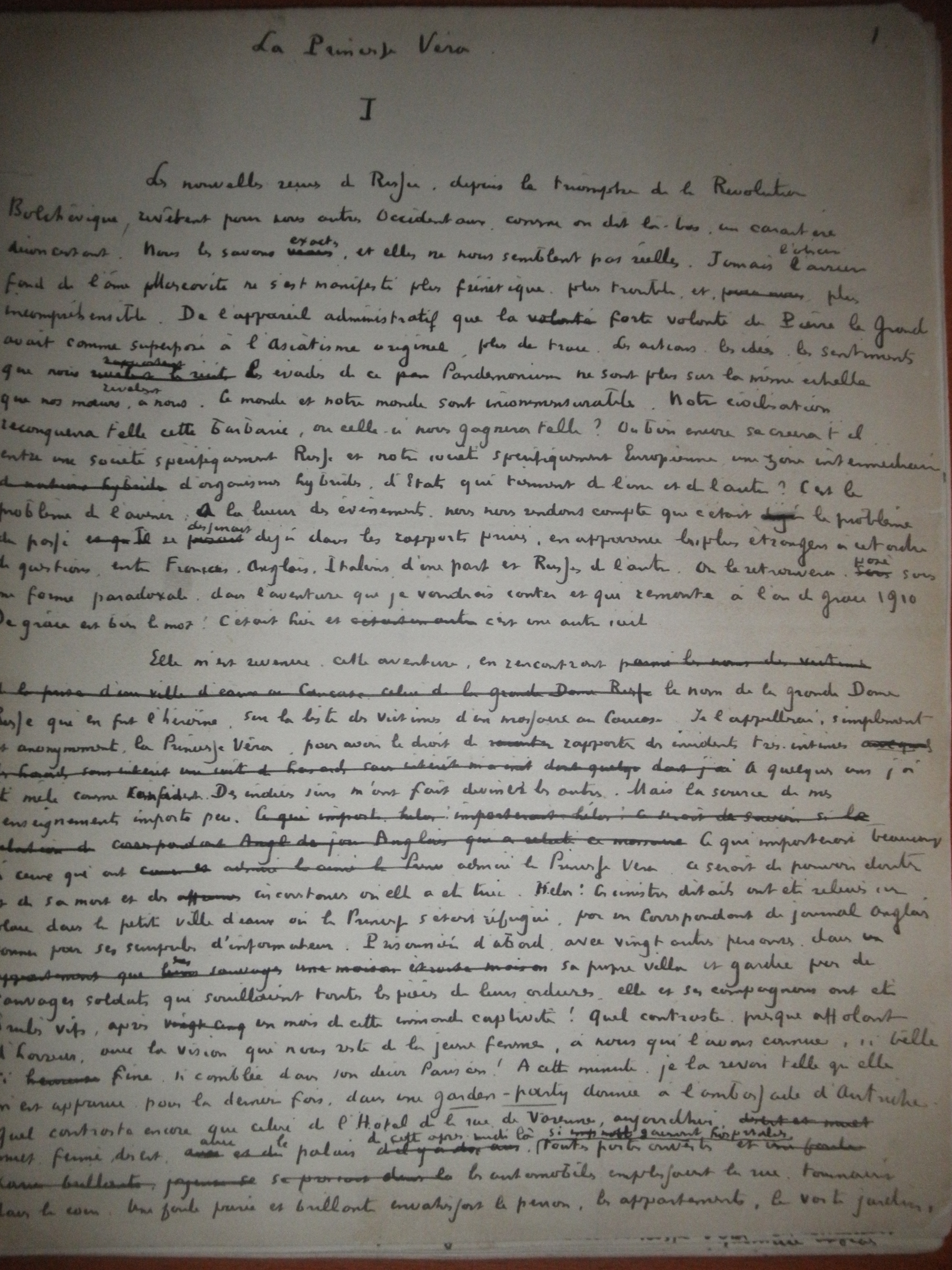 beau rôle 1